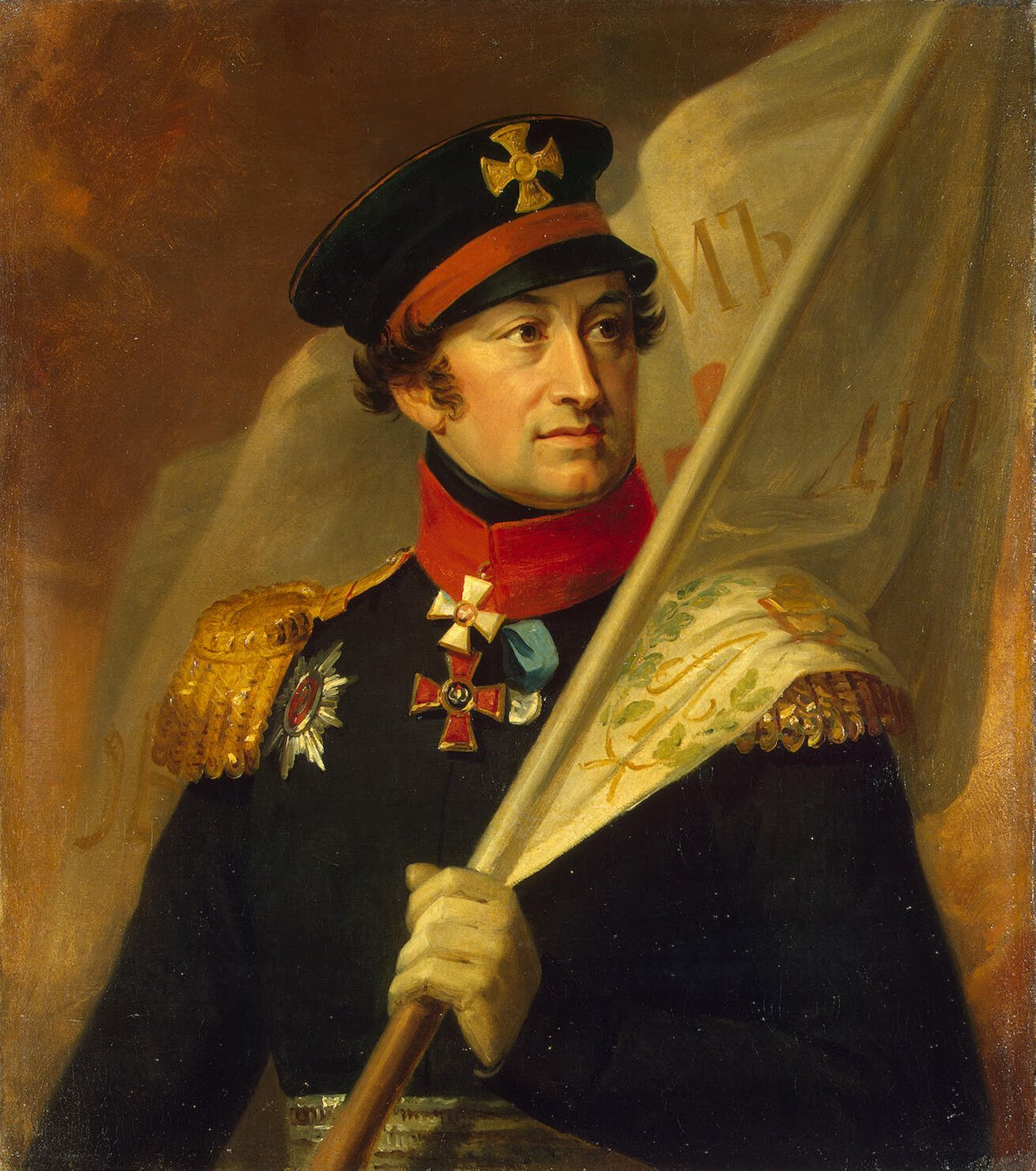 Alexandr Alexandrovich Bibikov (07.01.1765 – 20.07.1822) russian general